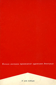 Cover of the catalog of Exhibition of works by Leningrad artists of 1970